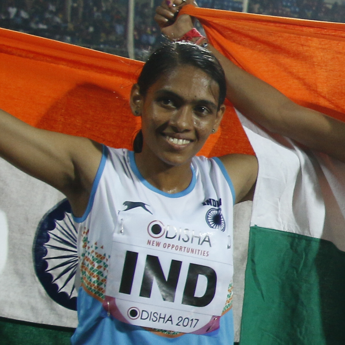 2017 Asian Athletics Championships at the Kalinga Stadium in Bhubaneswar, India